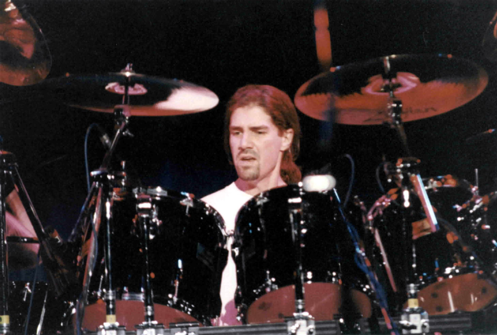 Photo taken of Mike Sturgis in 1995 with Wishbone Ash.